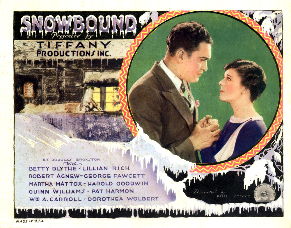 Lobby card for the American comedy film Snowbound (1927). There are no copyright marks on the item. At lower left is Made in USA.